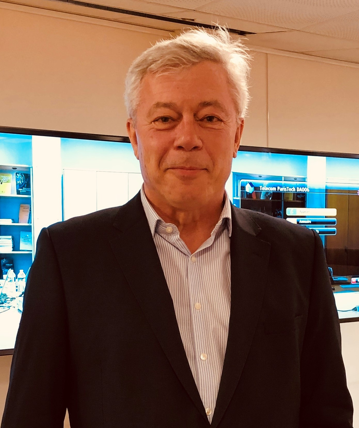 Picture of Olivier Fleurot, president Foundation Mines Saint-Etienne